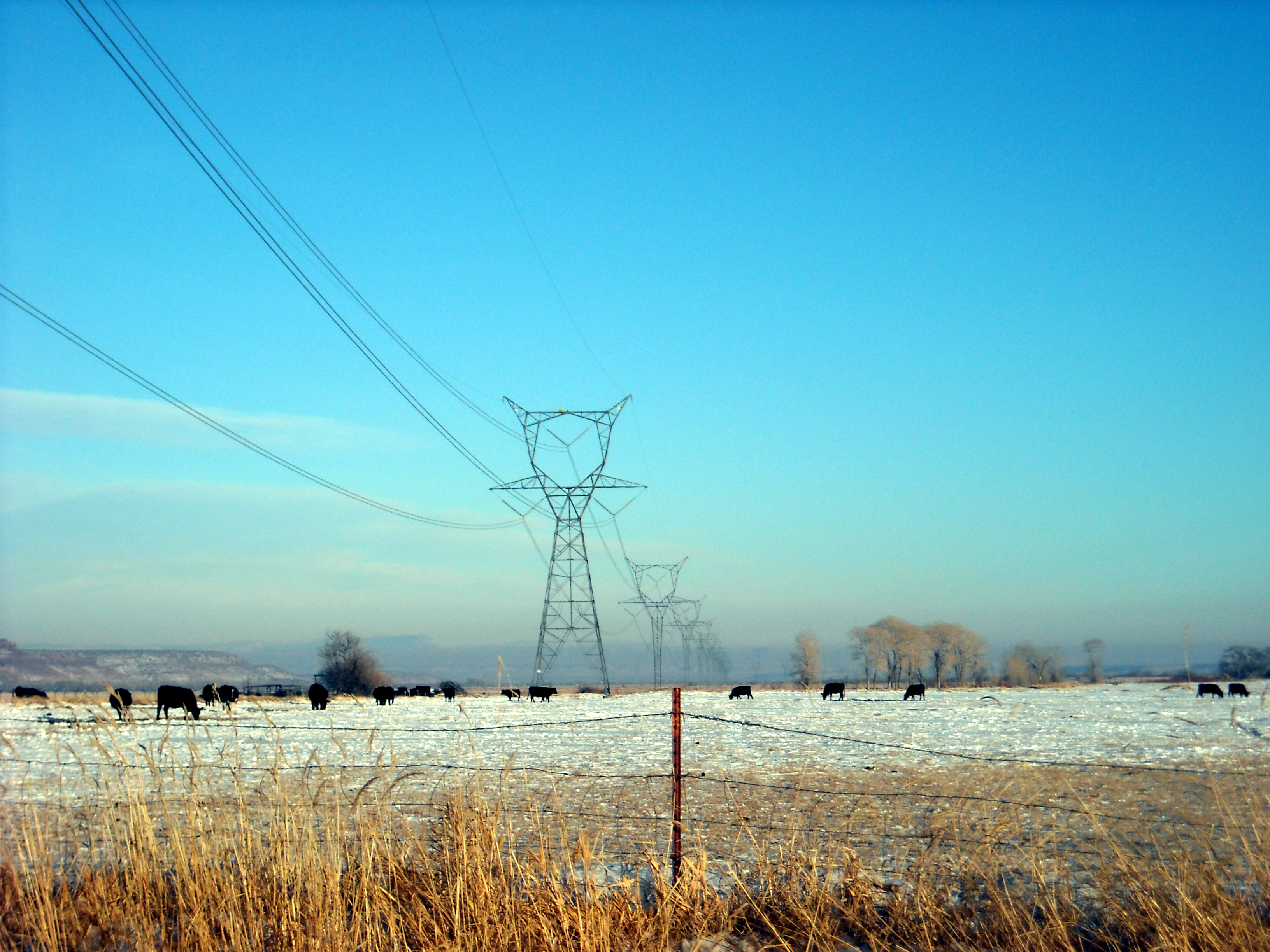 High voltage transmission lines in Duchesne County, Utah